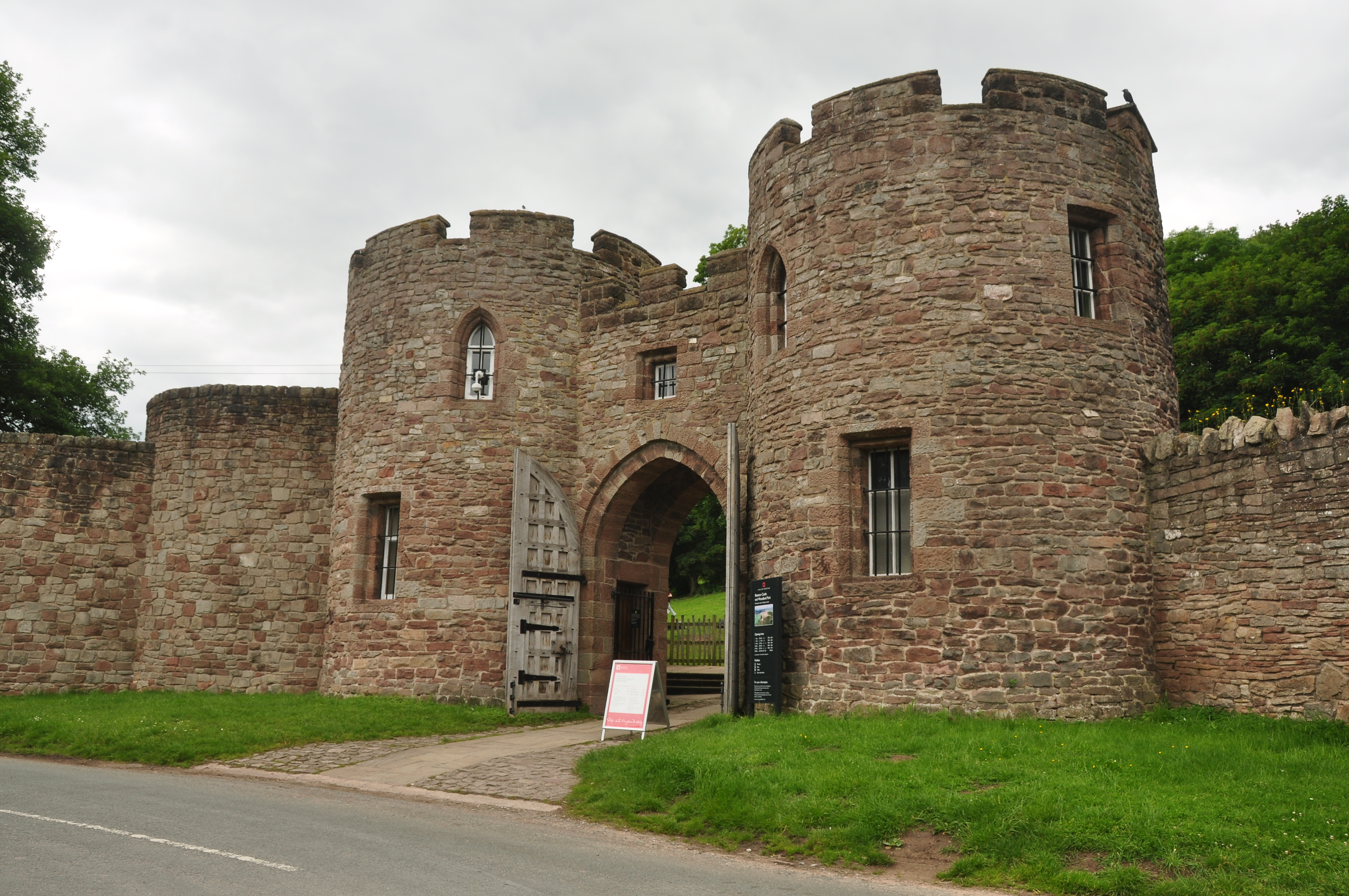 Beeston Castle